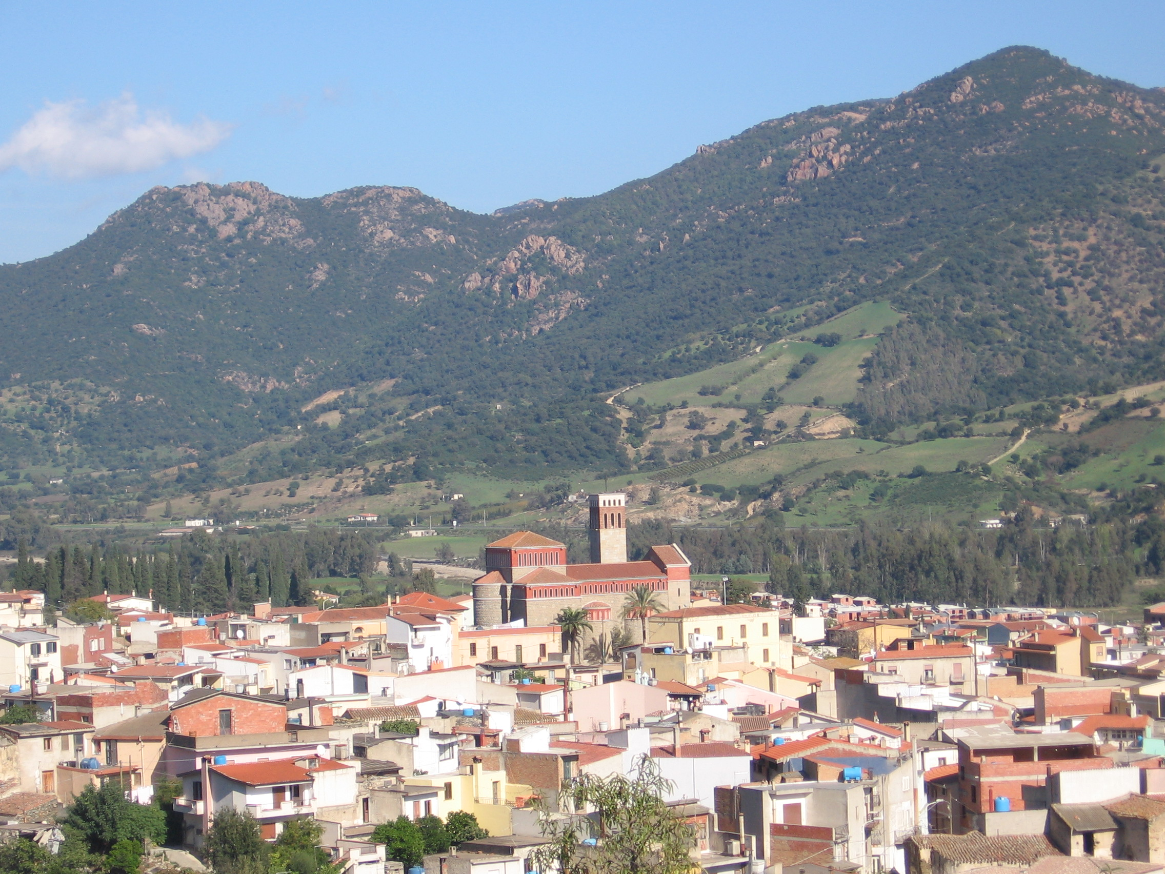 Vista del paese di Tertenia da s'Arcu de sa rugi